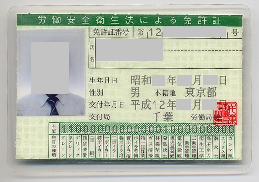 License by the Labour Safety Law of Japan